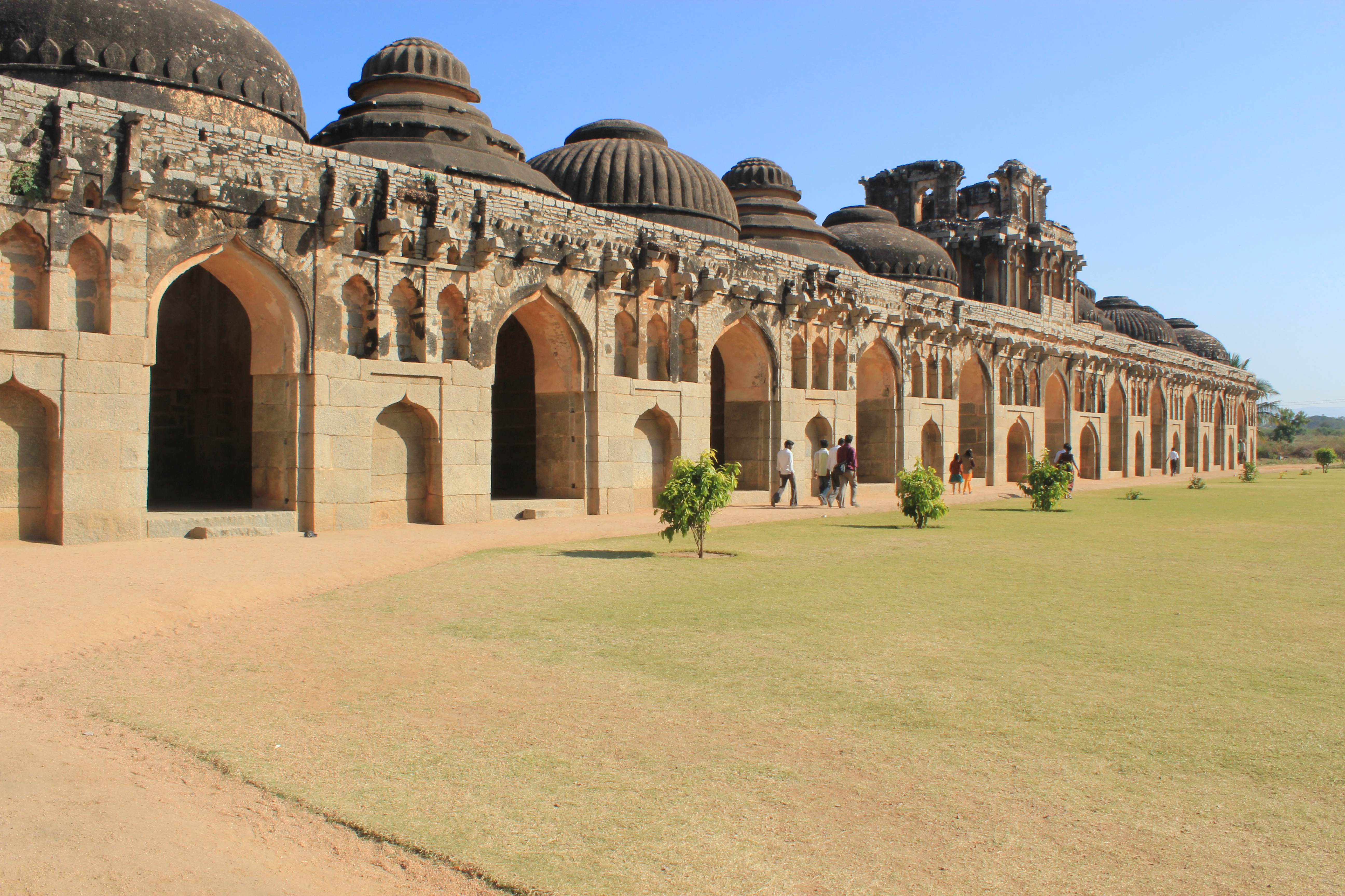 Horse and Elephant Stable